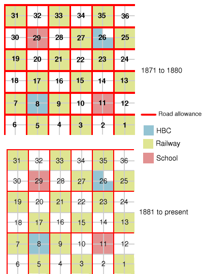 Townships of Dominion Land Survey An original work of "art" done in the GIMP by me. Indefatigable 18:48, 4 Dec 2003 (UTC)